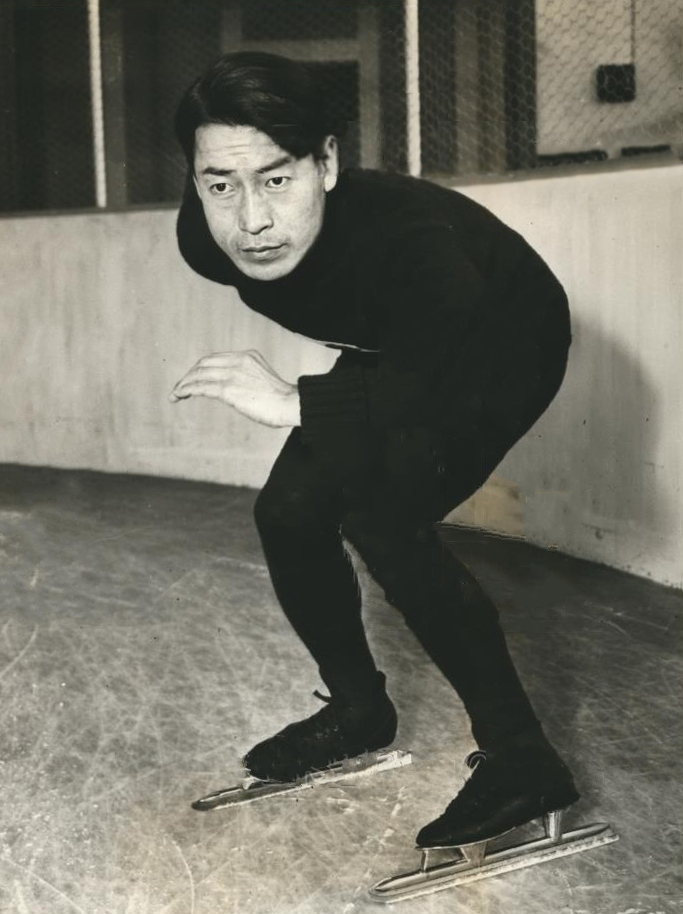 1932 Press Photo Tomeju Uruma Skating Champion works out for Olympics